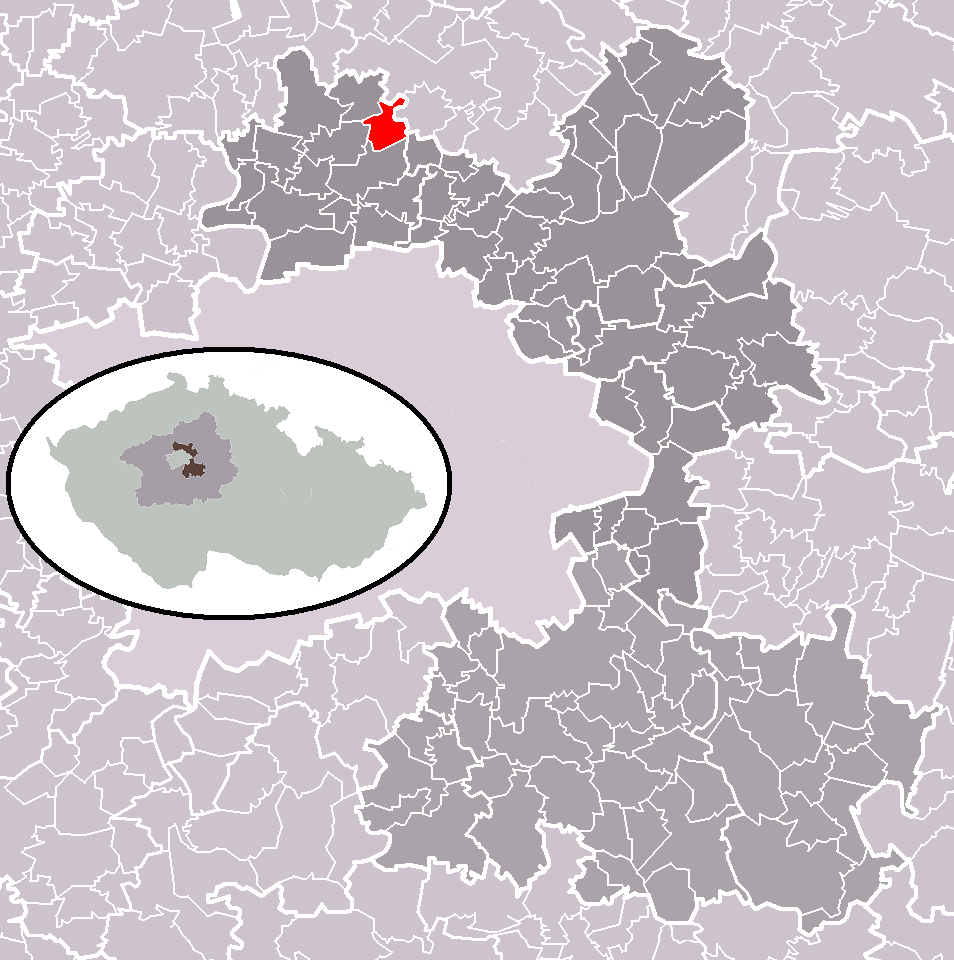 Location of Předboj municipality within Prague-East District and administrative area of Brandýs nad Labem-Stará Boleslav as a Municipality with Extended Competence.